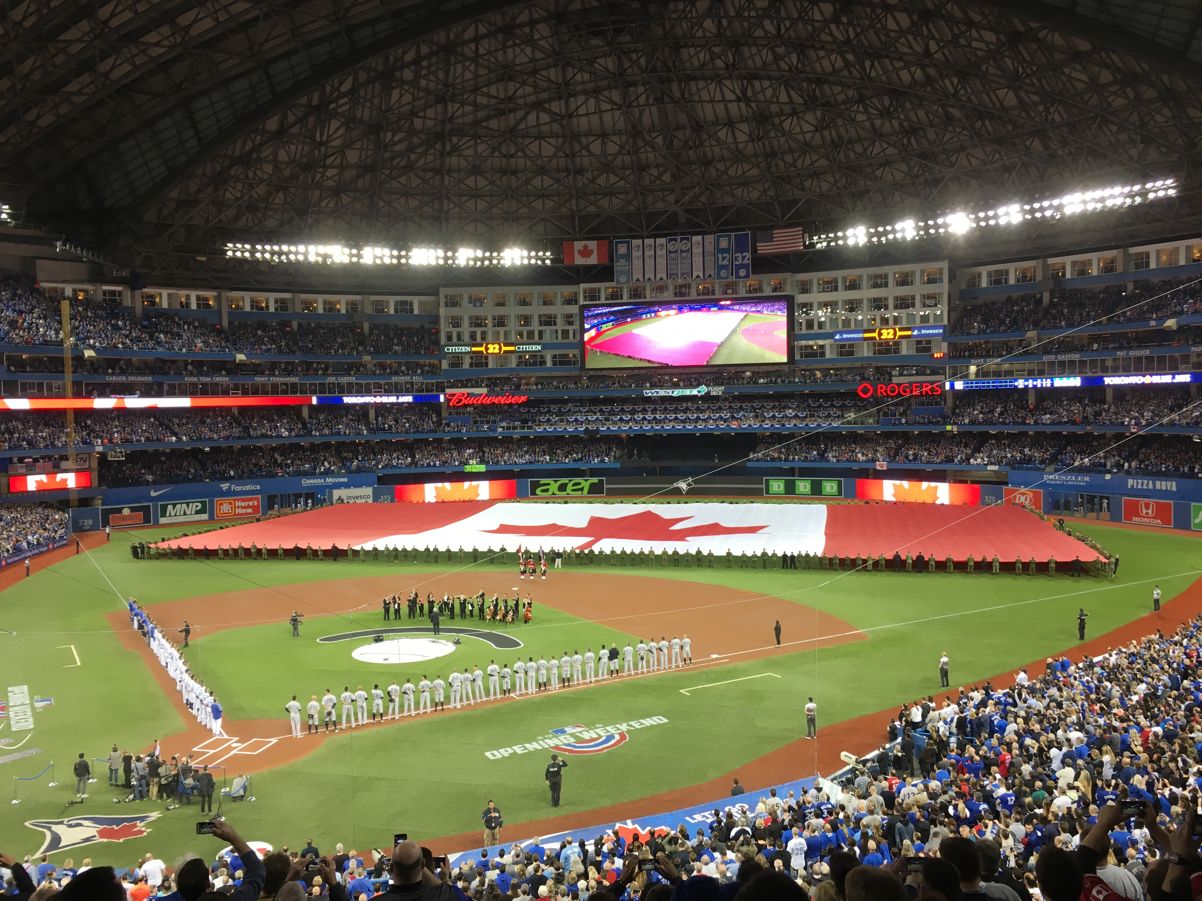 Great start to Grace and Maddie's first Blue Jays Opening Day! We're having a blast cheering on the Jays.